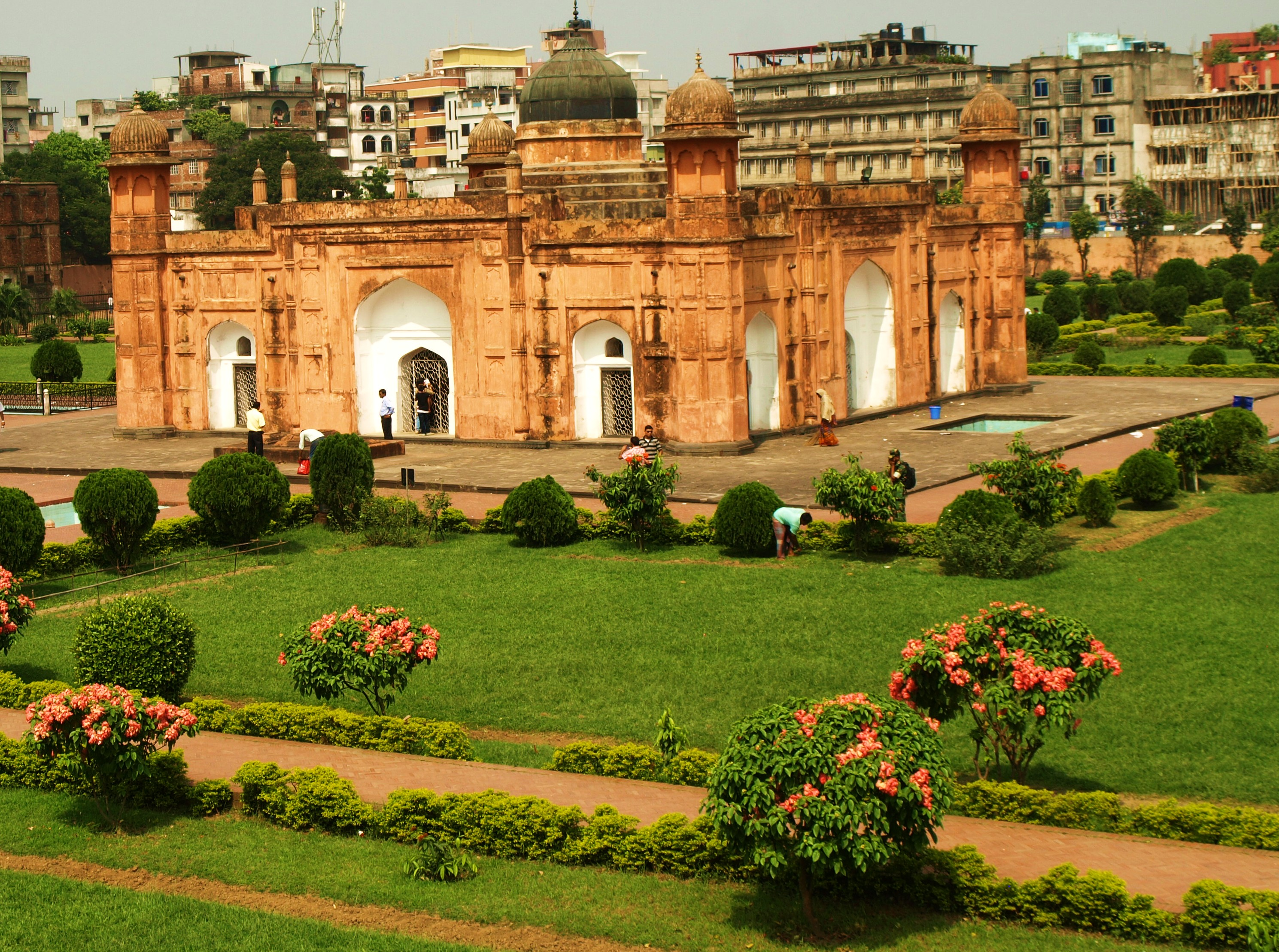 Lalbagh Kella (Lalbagh Fort) Dhaka Bangladesh 2011 20